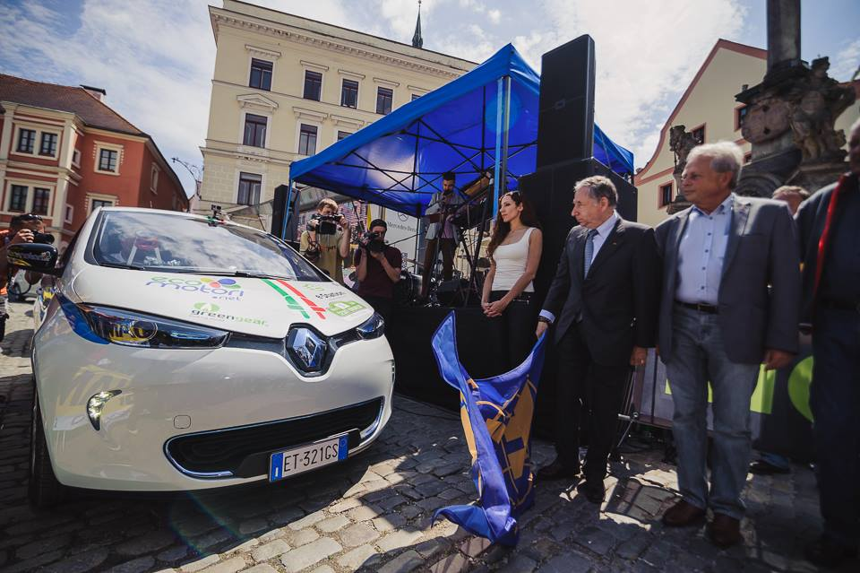 Zoe by Ecomotori Racing Team